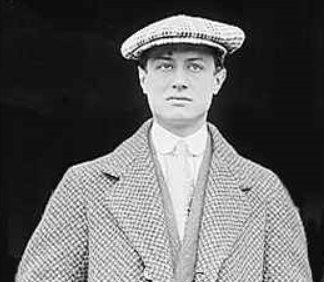 Aviator Rene Simon in 1911